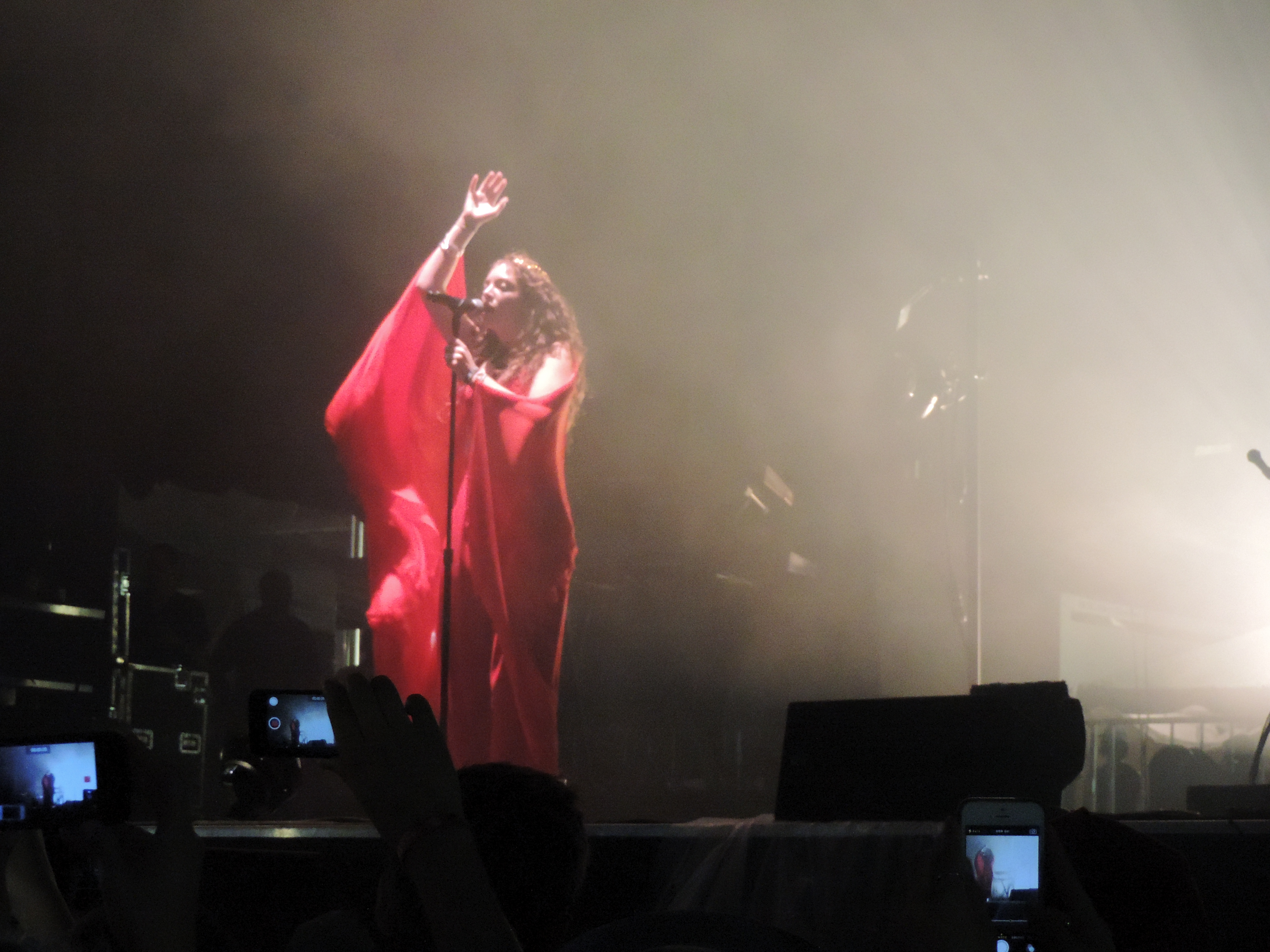 After leaving the stage, Lorde returned to perform her final three songs ("Royals", "Yellow Flicker Beat" and "Team") in this red outfit complete with a cape.